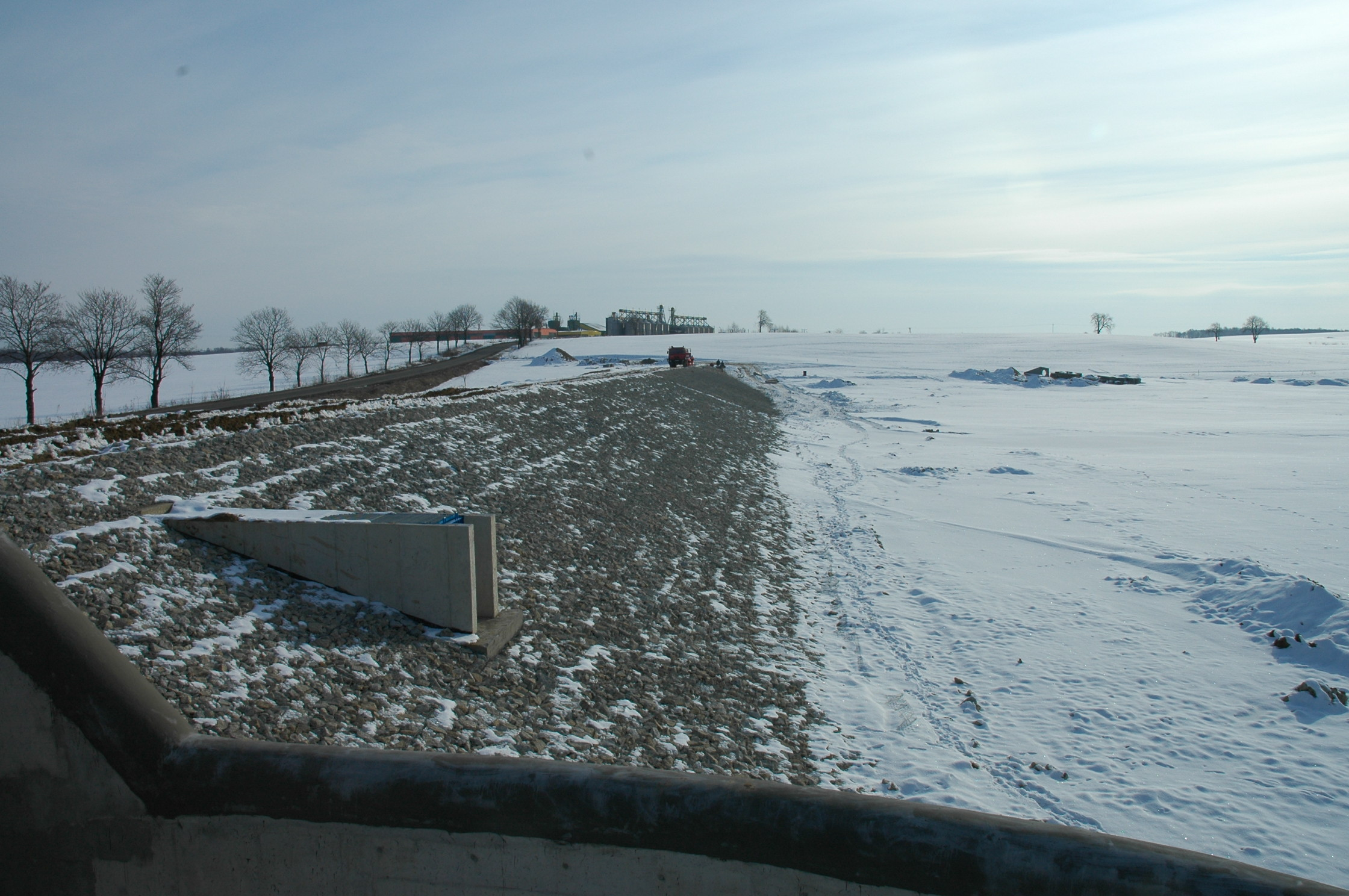 Zapora Przeworno